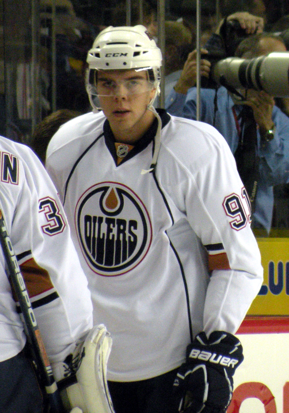 Edmonton Oilers forward Magnus Pääjärvi-Svensson prior to a National Hockey League game against the Calgary Flames.